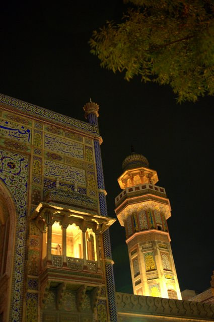 Small mosque of Wazir Khan inside Taxali Gate (the mosque of ladies of Wazir Khan) This is a photo of a monument in Pakistan identified as the PB-P-114